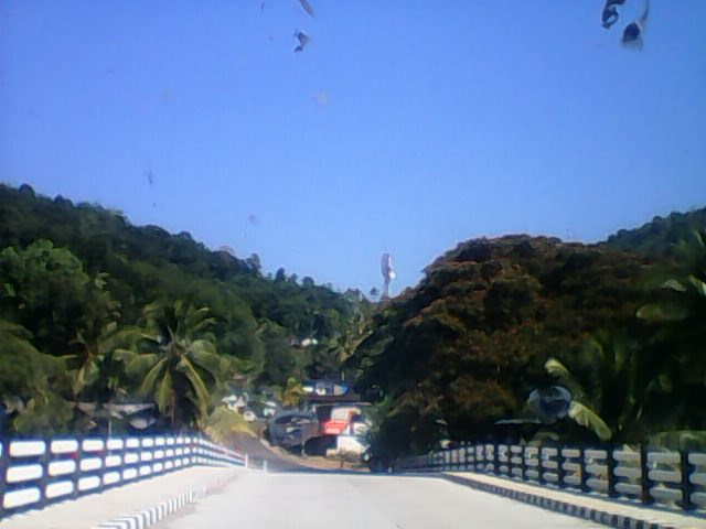 Bridge between Pathanamthitta and Kottayam districts